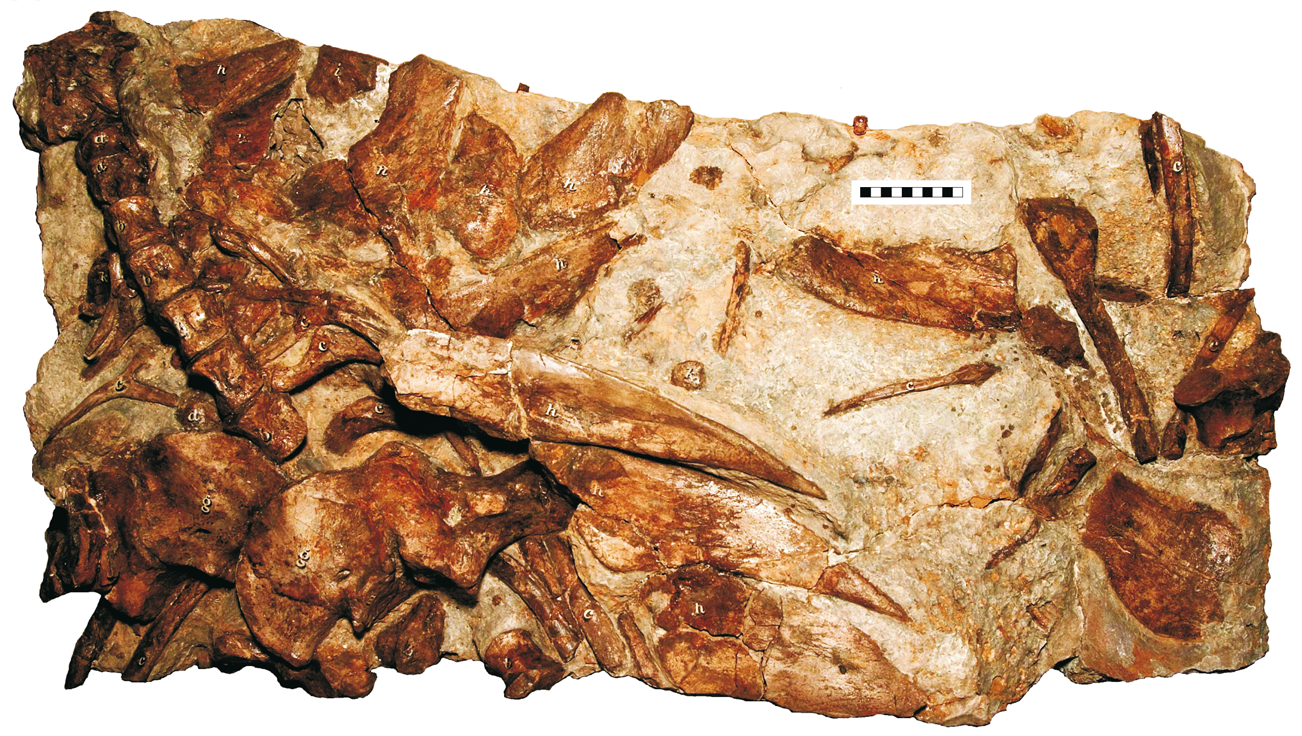 Holotype specimen of Hylaeosaurus armatus Mantell, 1833 (NMH R3775) from the Grinstead Clay Formation (late Valanginian) of Tilgate Forest, Sussex, southern England.